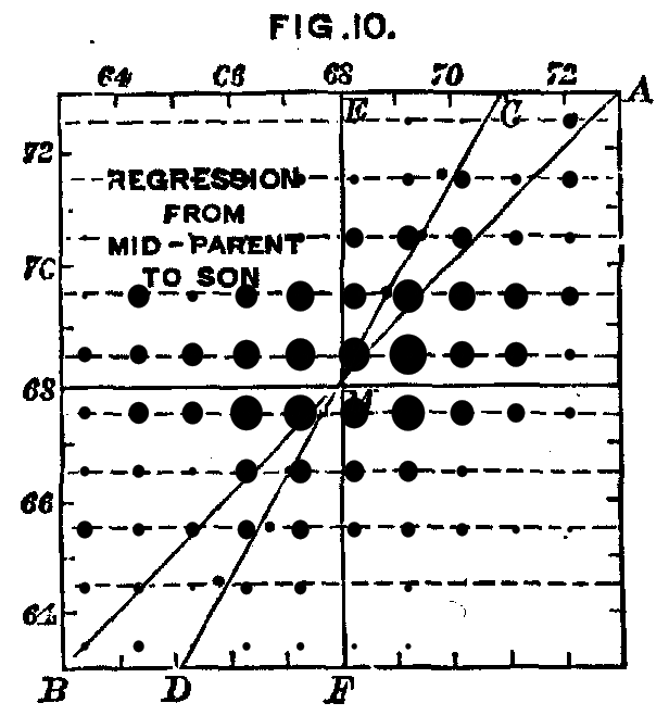 Based on Galton's original 1889 graph in "Natural Inheritance" page 96. Circles with sizes proportional to the data from table 11 (page 208) have been added.